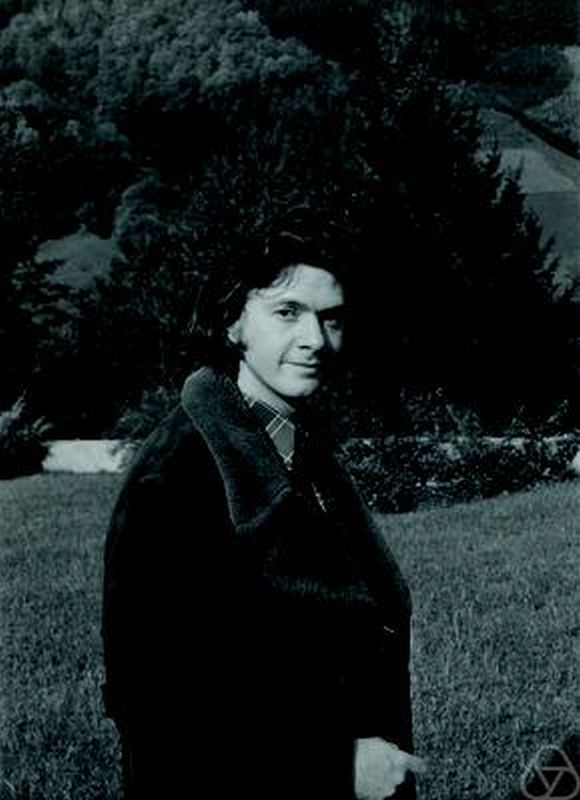 Claude Kipnis, Oberwolfach 1976